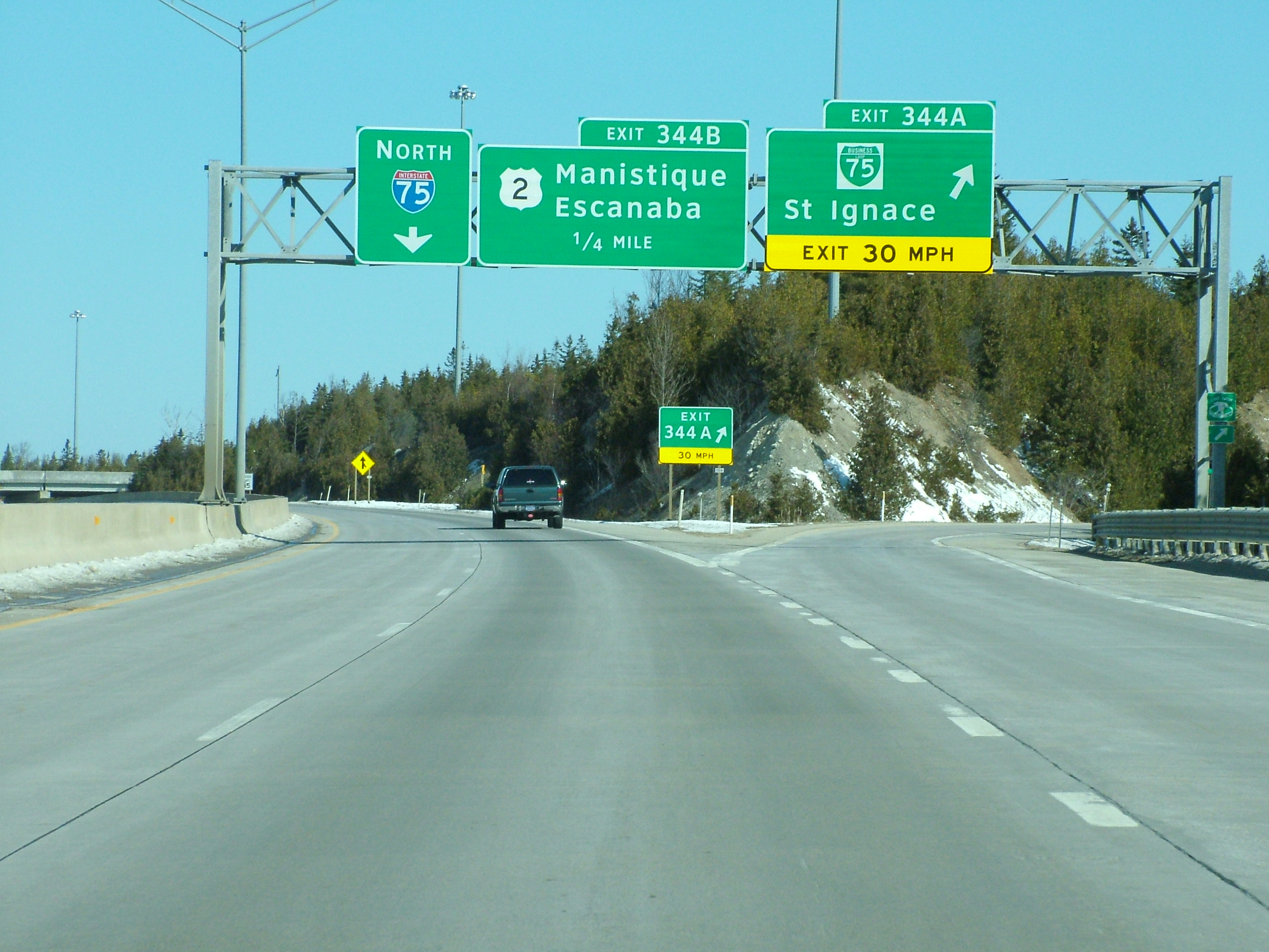 The eastern terminus of the national western segment of U.S. Route 2 at the junction with I-75 just north of the Mackinac Bridge near St. Ignace, MI. This is also the eastern terminus of the eastern segment of US 2 in Michigan